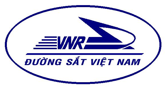 Logo of Viet Nam Railways